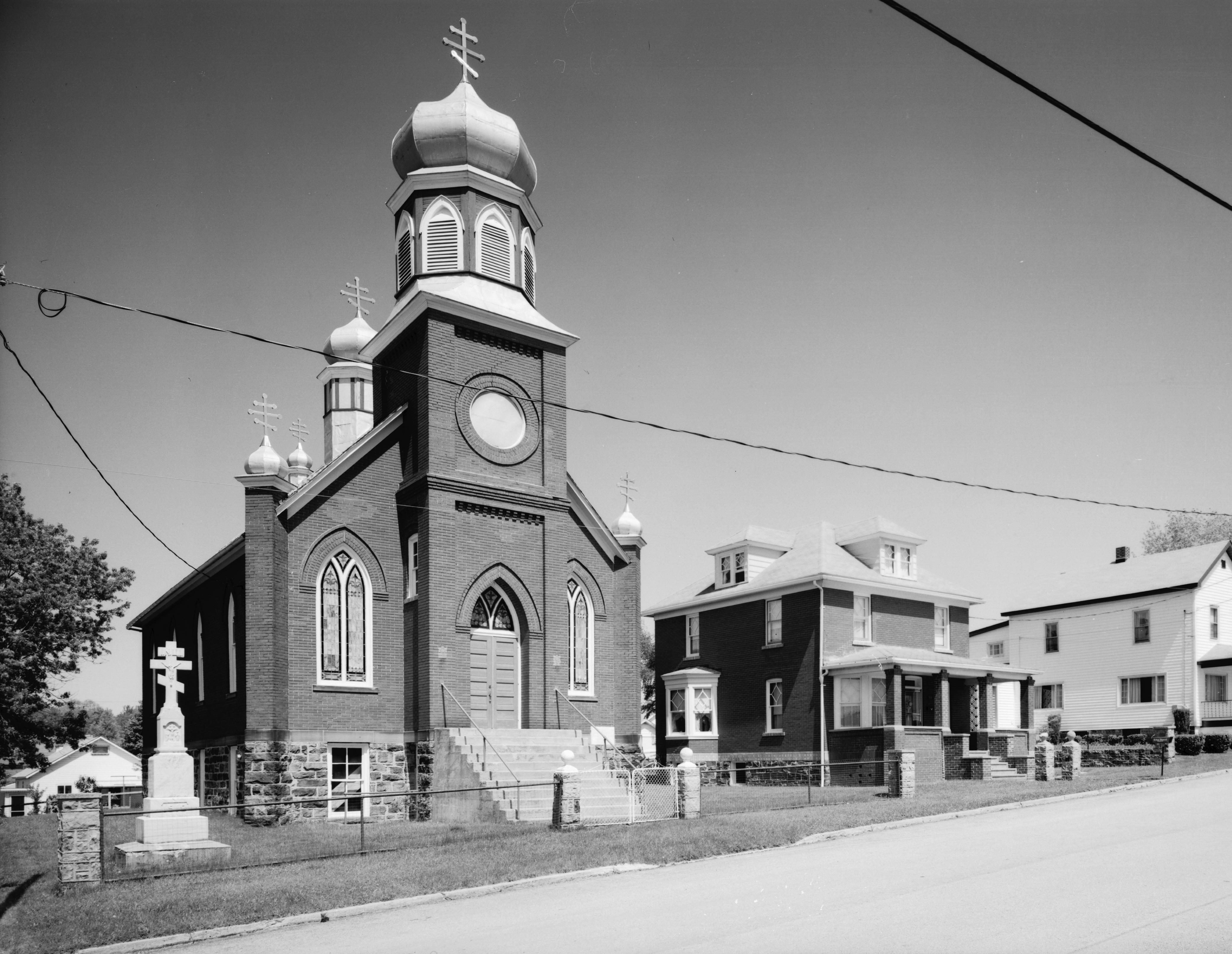 Front of SS Peter and Paul Russian Orthodox Greek Catholic Church, located along the eastern side of the 300 block of Quemahoning Street in Boswell, Pennsylvania, United States. The church is a part of the Boswell Historic District, a historic district that is listed on the National Register of Historic Places.